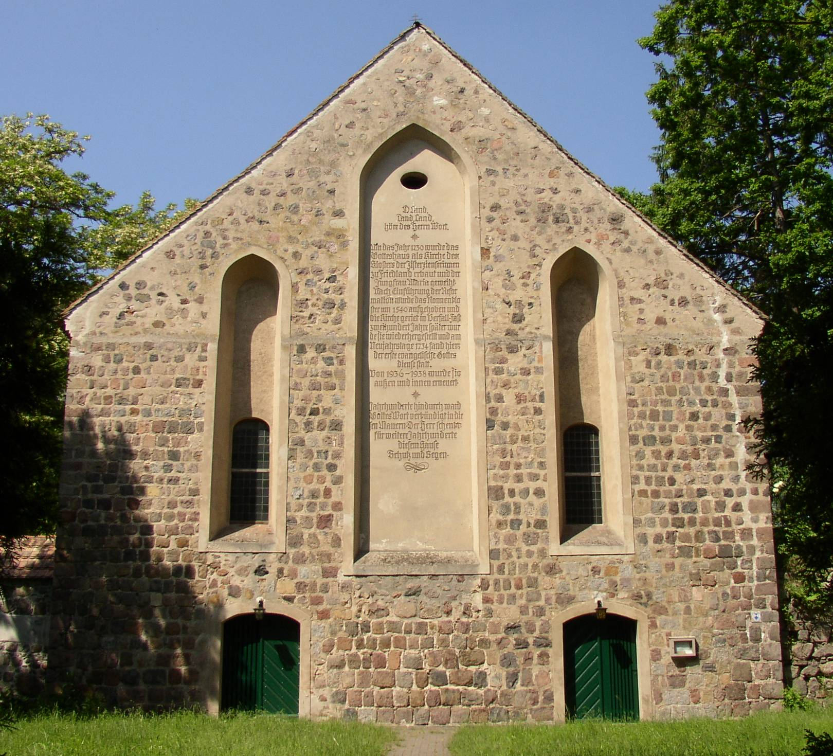 Church in Neuhardenberg-Altfriedland in Brandenburg, Germany